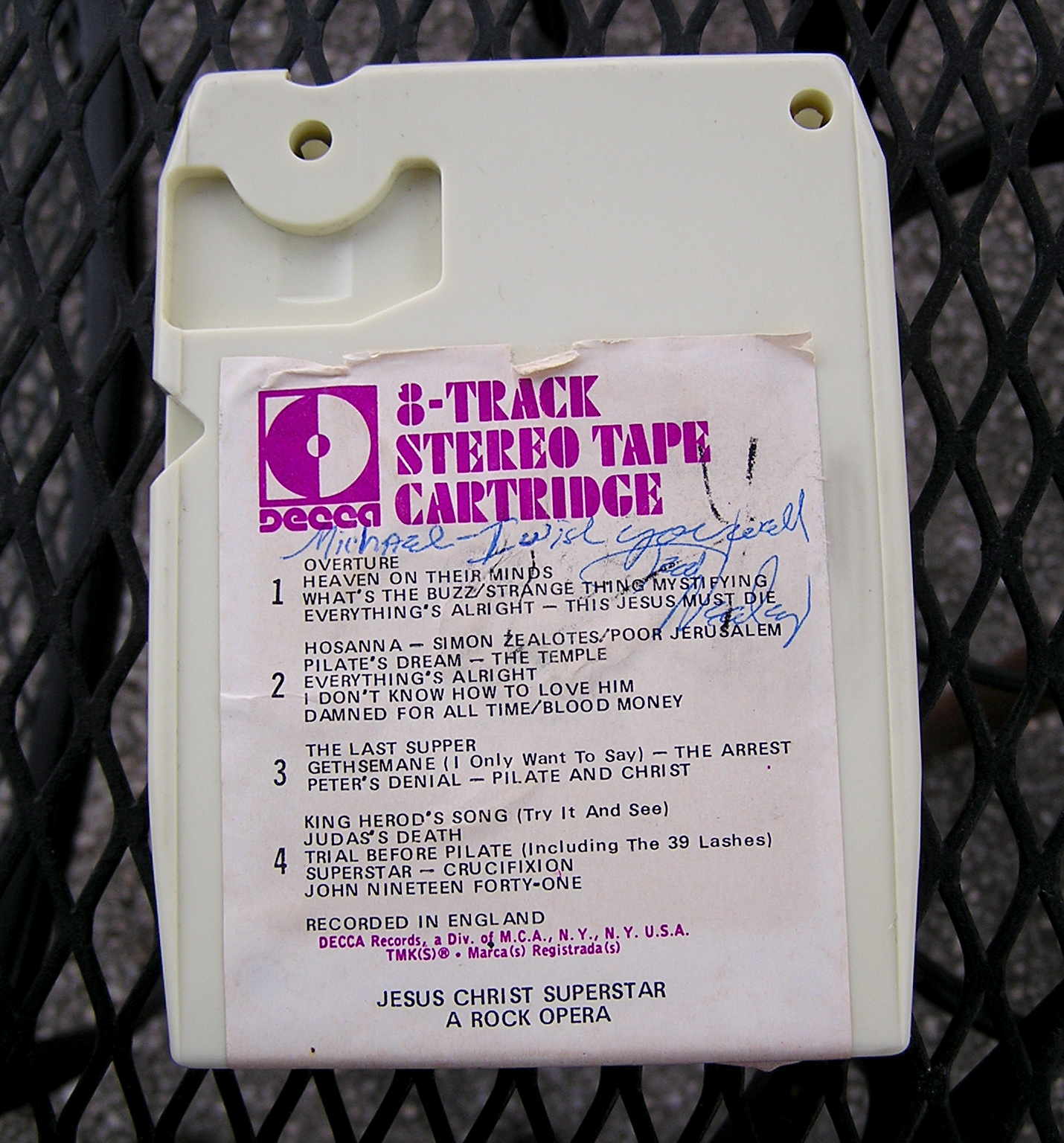 Talk about the ultimate signature! After a 35+ year wait and then 3 days more of trying to weasel this I finally got one of the Apostles and really super cool dude, Etahn Wilcox, to get my 8-Track signed by the amazing Ted Neeley! I talked to Ethan both the first and second nights after the show and after Strike 2, he took my 8-Track and told me to come back after the 2:00 show the next day, Sunday. Sweet! Ted Neeley, AKA Jesus, also starred in the title movie role in Norman Jewison’s "Jesus Christ Superstar". Thanks again Ethan, hope you're digging the Los Beatles shirt! (I brought him one of my shirts as a grande gracias!